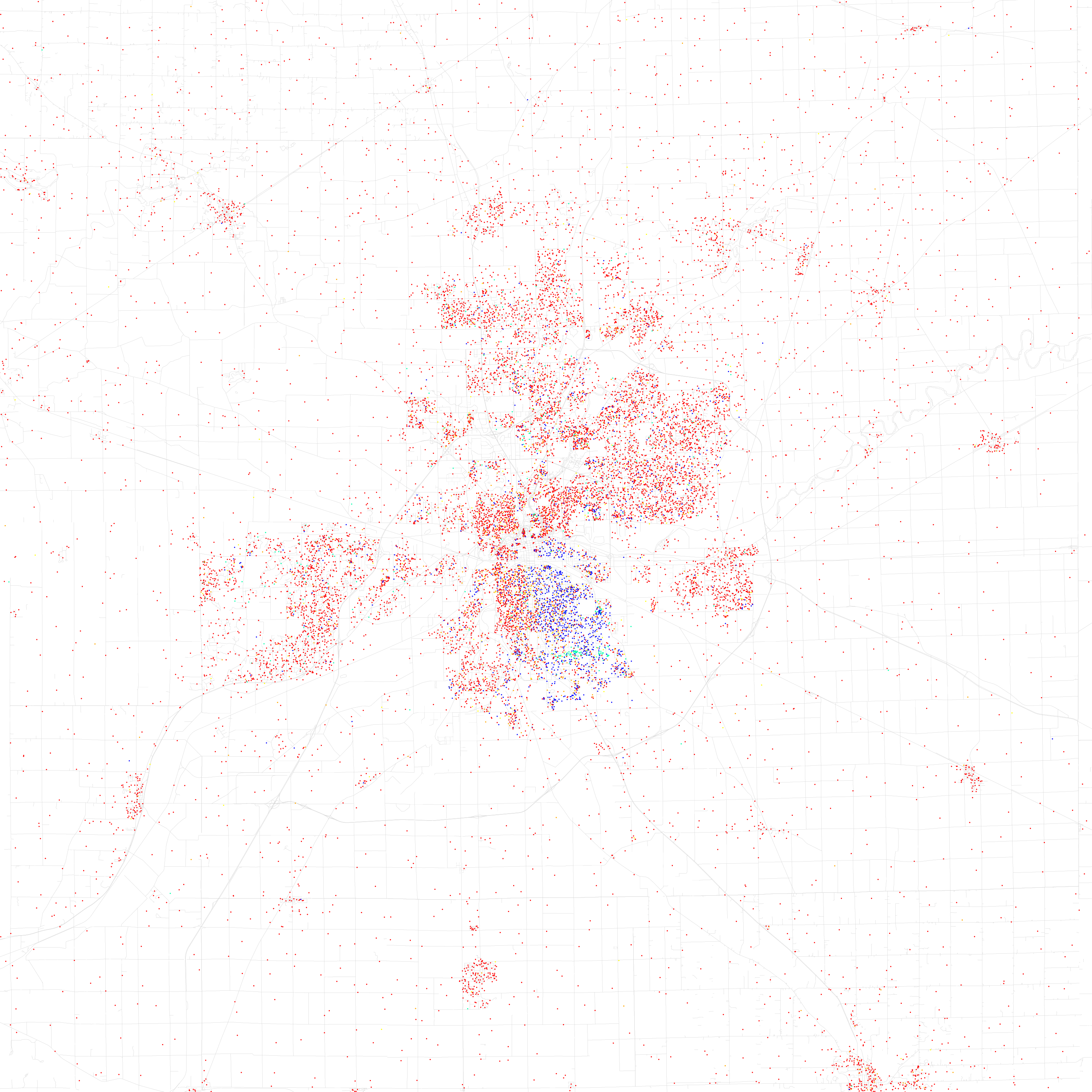 Maps of racial and ethnic divisions in US cities, inspired by Bill Rankin's map of Chicago, updated for Census 2010. Red is White, Blue is Black, Green is Asian, Orange is Hispanic, Yellow is Other, and each dot is 25 residents. Data from Census 2010. Base map © OpenStreetMap, CC-BY-SA